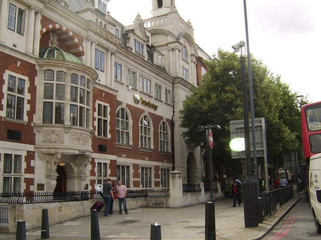 Travelodge, King's Cross One of two in the King's Cross area.